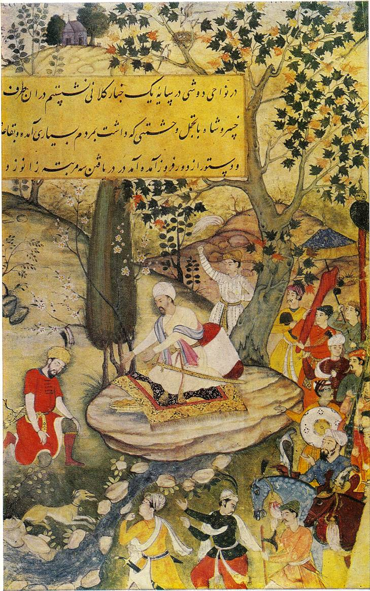 Khusrau Shah swearing fealty to Babur. Miniature from Baburnama. State Oriental Museum, Moscow.